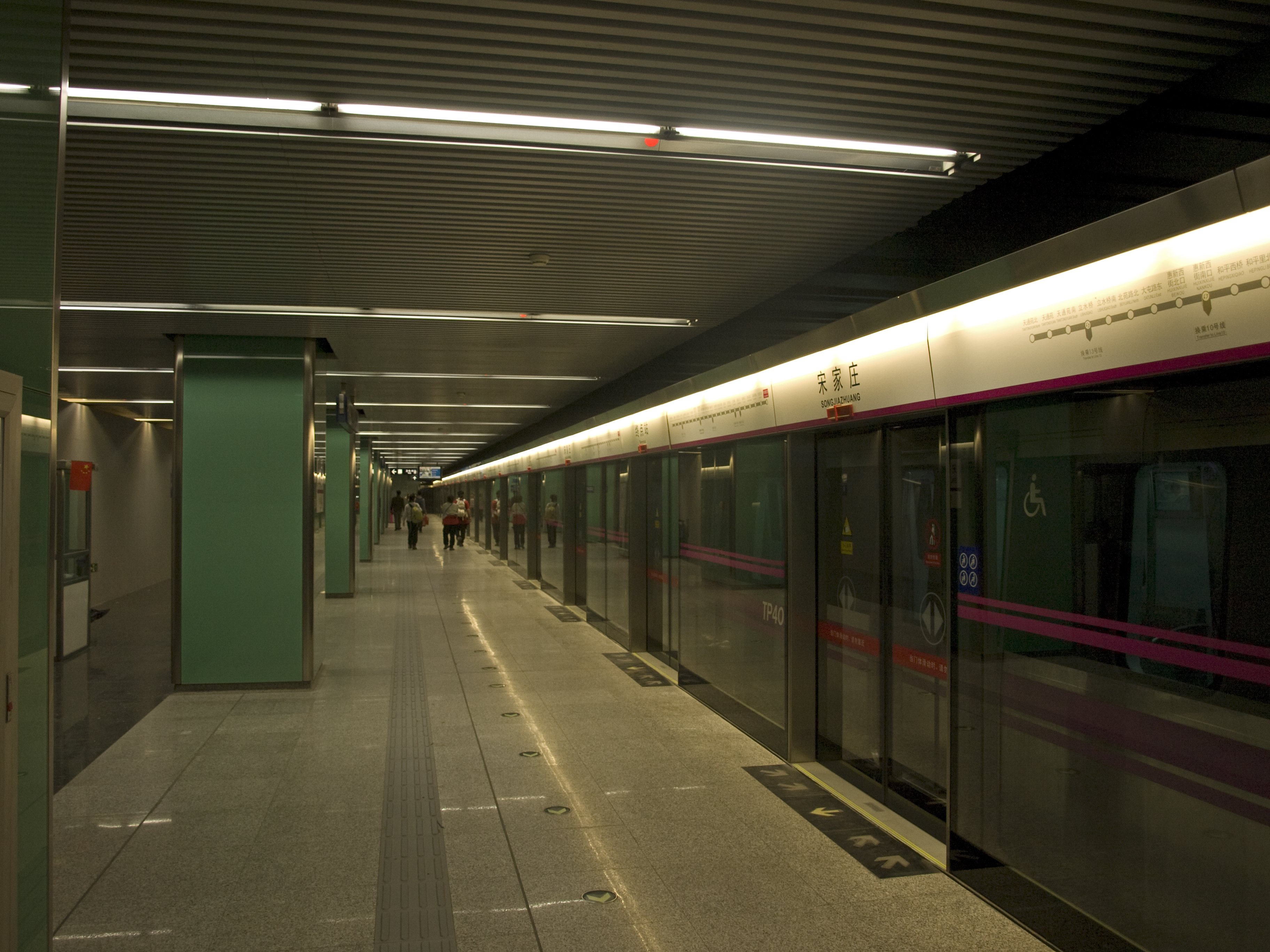 Songjiazhuang station, Beijing Subway